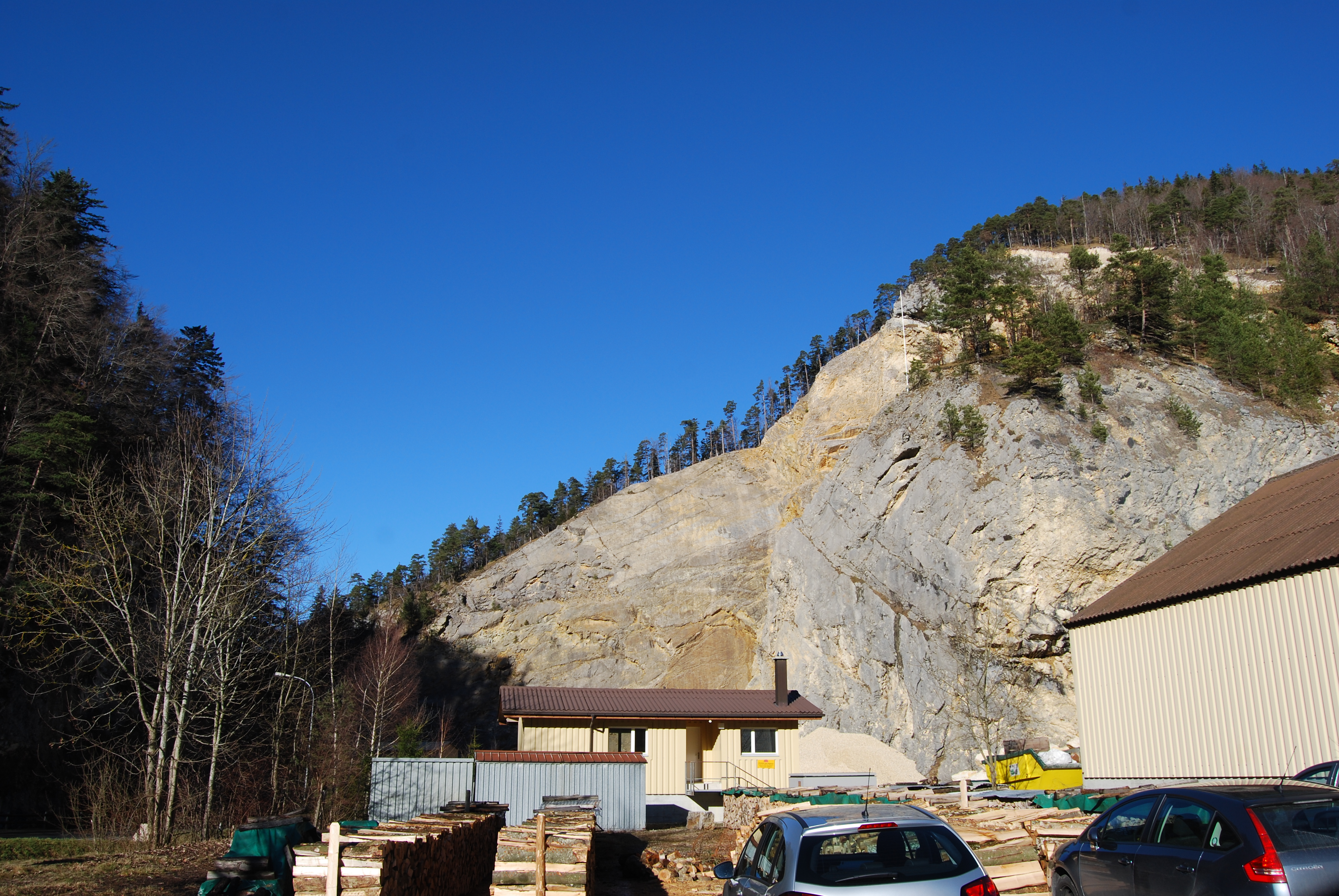 Quarry at Gänsbrunnen, canton of Solothurn, Switzerland